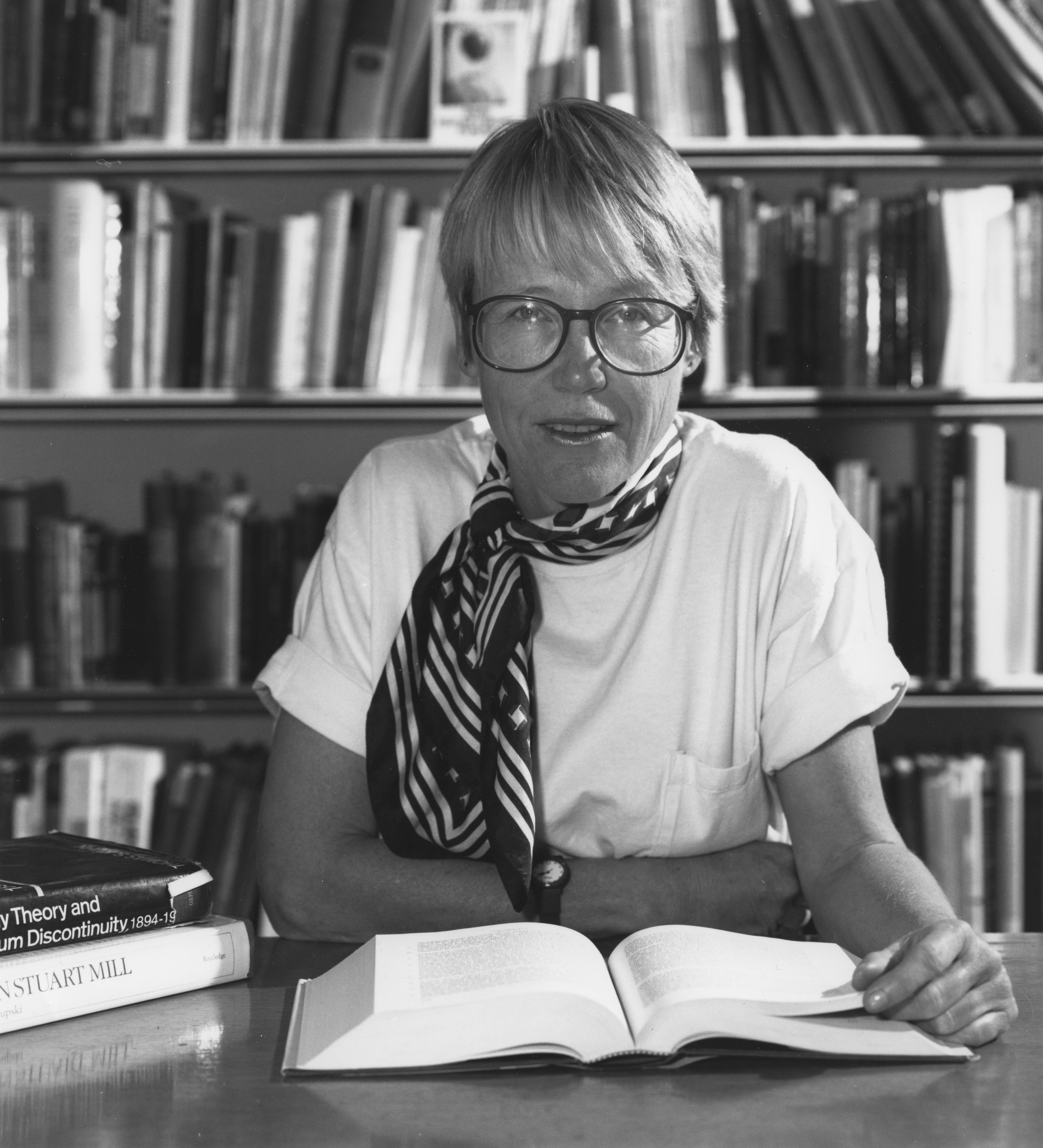 Nancy Cartwright, Professor of Philosophy IMAGELIBRARY/1054 Persistent URL